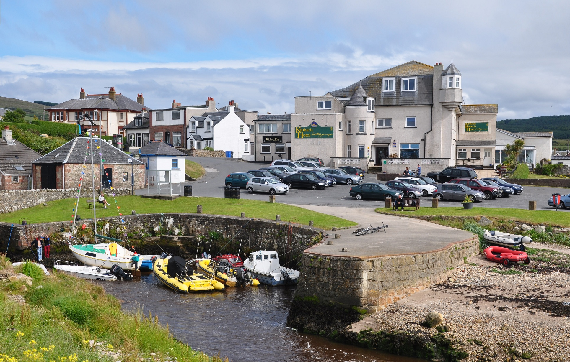 'Downtown' Blackwaterfoot with its tiny harbour and the large Kinloch Hotel (Isle of Arran, Scotland).